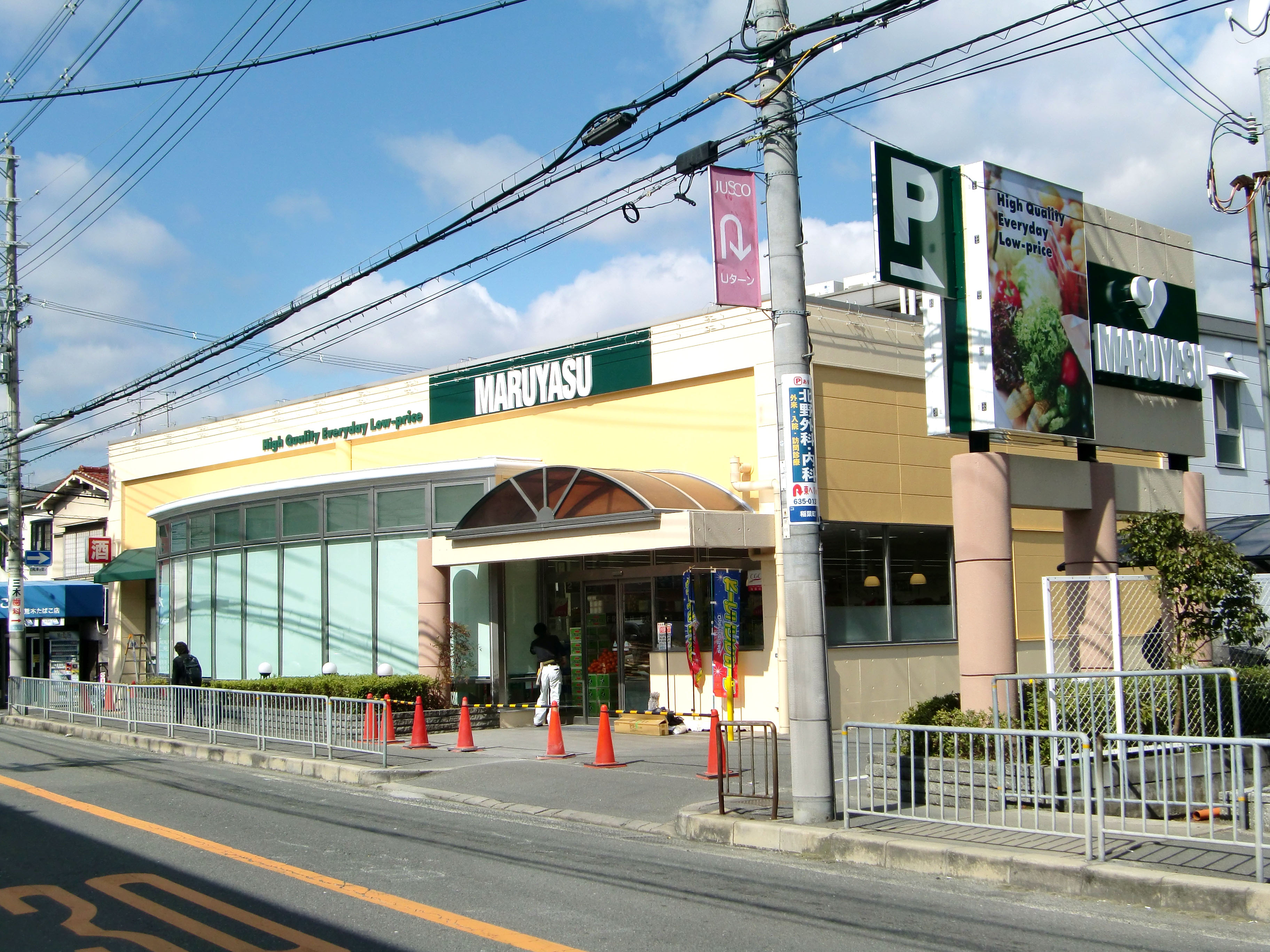 Maruyasu,Inaba-cho Ibaraki-shi Osaka Japan.